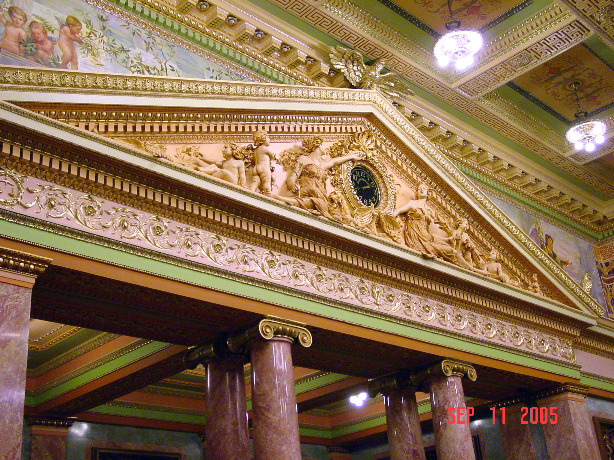 Interior of the restored Allen County Courthouse in Fort Wayne, Indiana USA